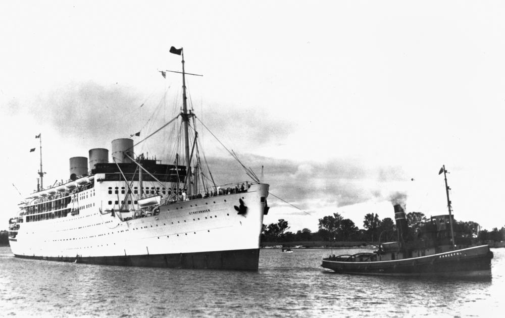 Strathnaver (ship)